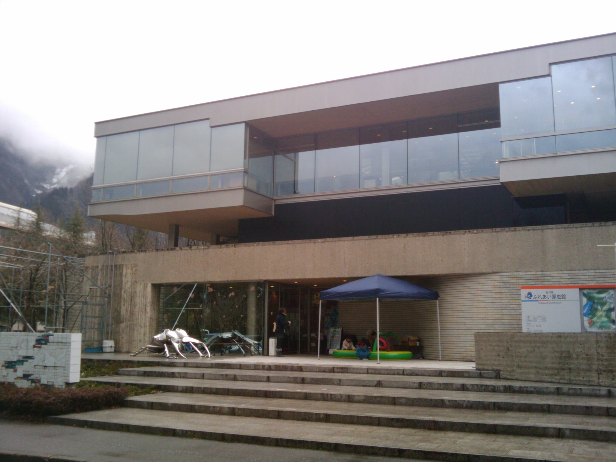 Ishikawa Insect Museum (Hakusan, Ishikawa, Japan)